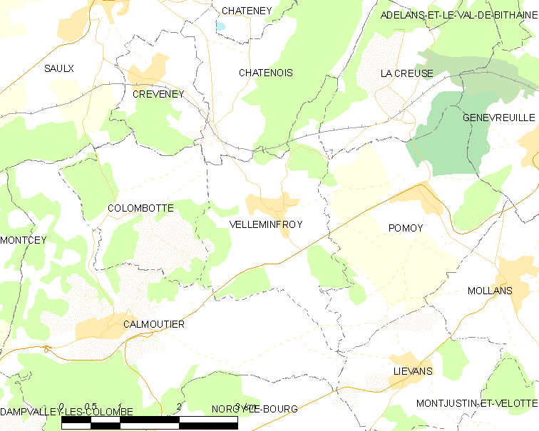 Map of French municipality